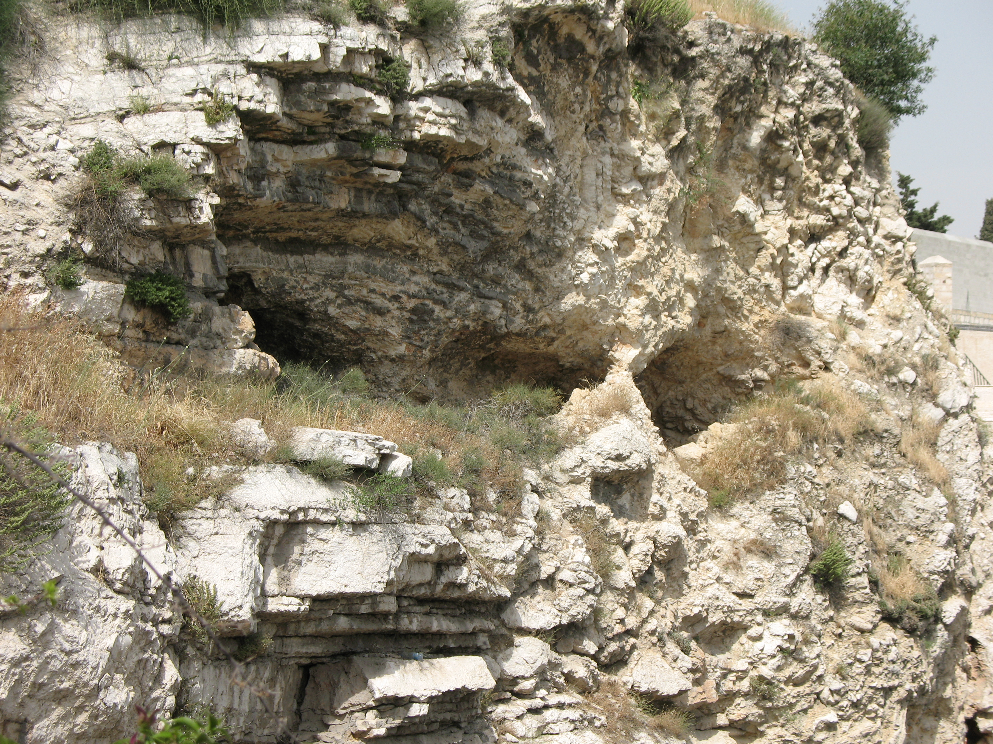 Golgotha_2024 The Garden Tomb is located in what is believed to have been a pre-Christian vineyard. ..